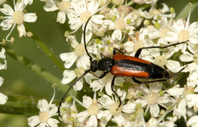 Picture taken in Commanster, Belgian High Ardennes . Species: Stenurella melanura female